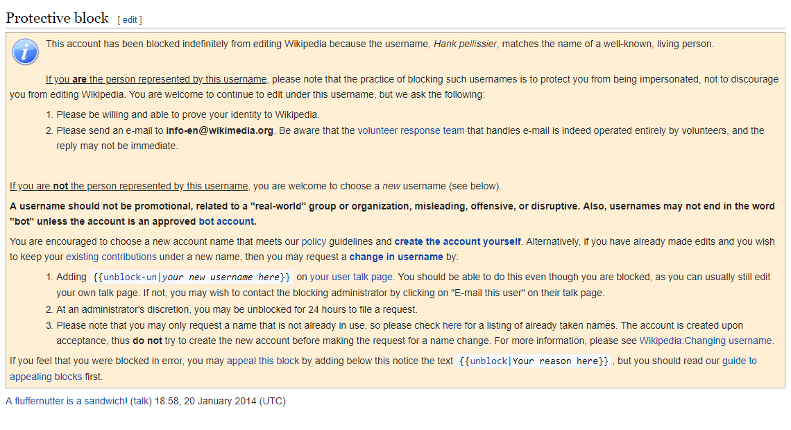 English wikipedia user talk page screenshot "Protective block" possibly for online sockpuppetry